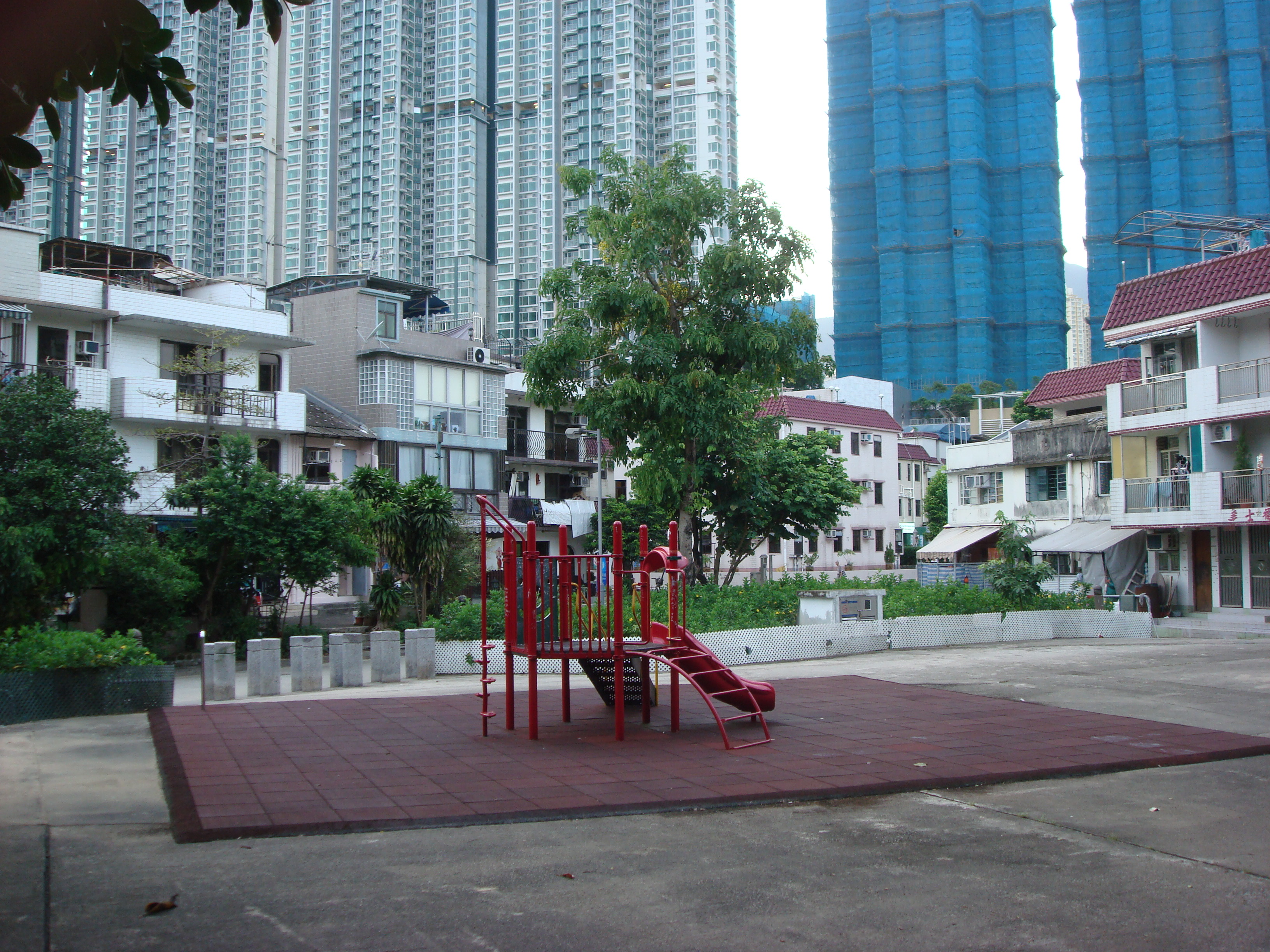 Tin Sam Village, Hong Kong